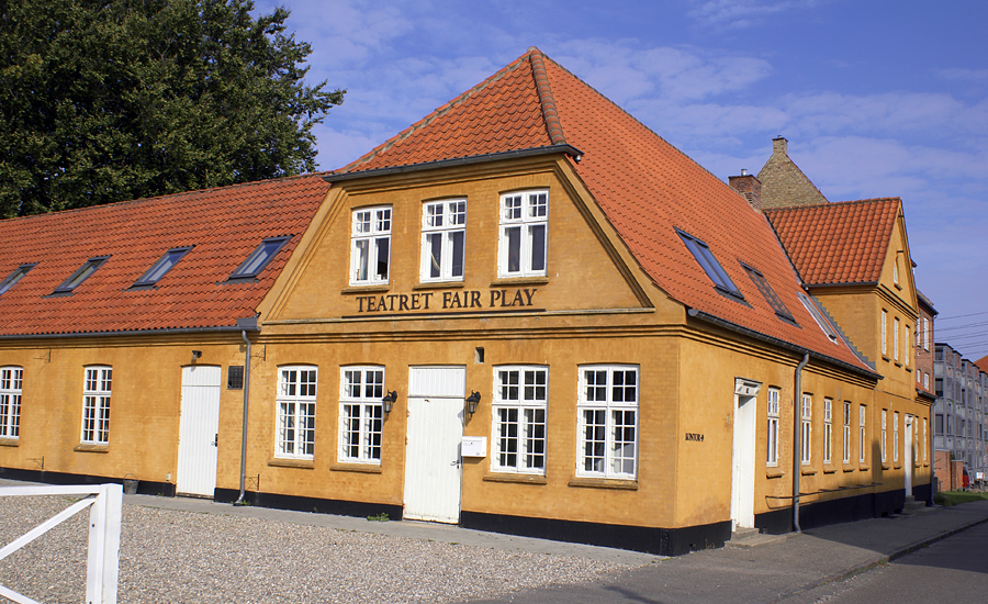 Theatre Fair Play, Holbæk, Denmark